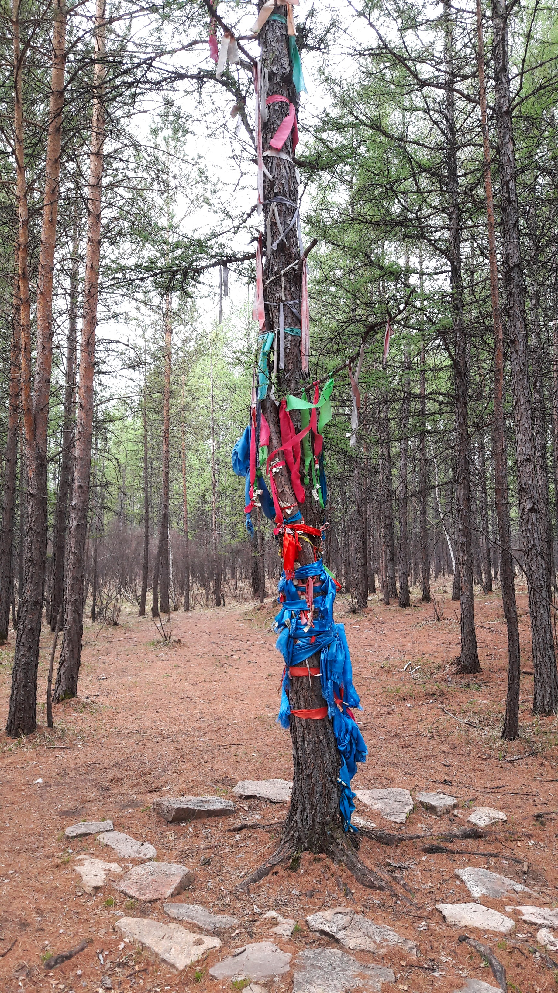 Evenks spirit tree at Genhe (根河), Aulunguya autonomous county (Aolunguya Evenki minzu xiang) (敖鲁古雅鄂温克族乡) Hulunbuir, Inner Mongolia, North-East of China